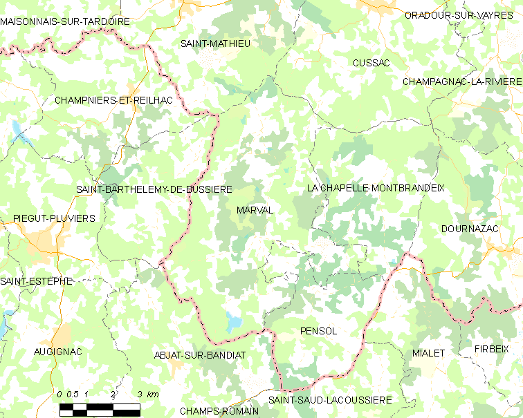 Map of French municipality Marval